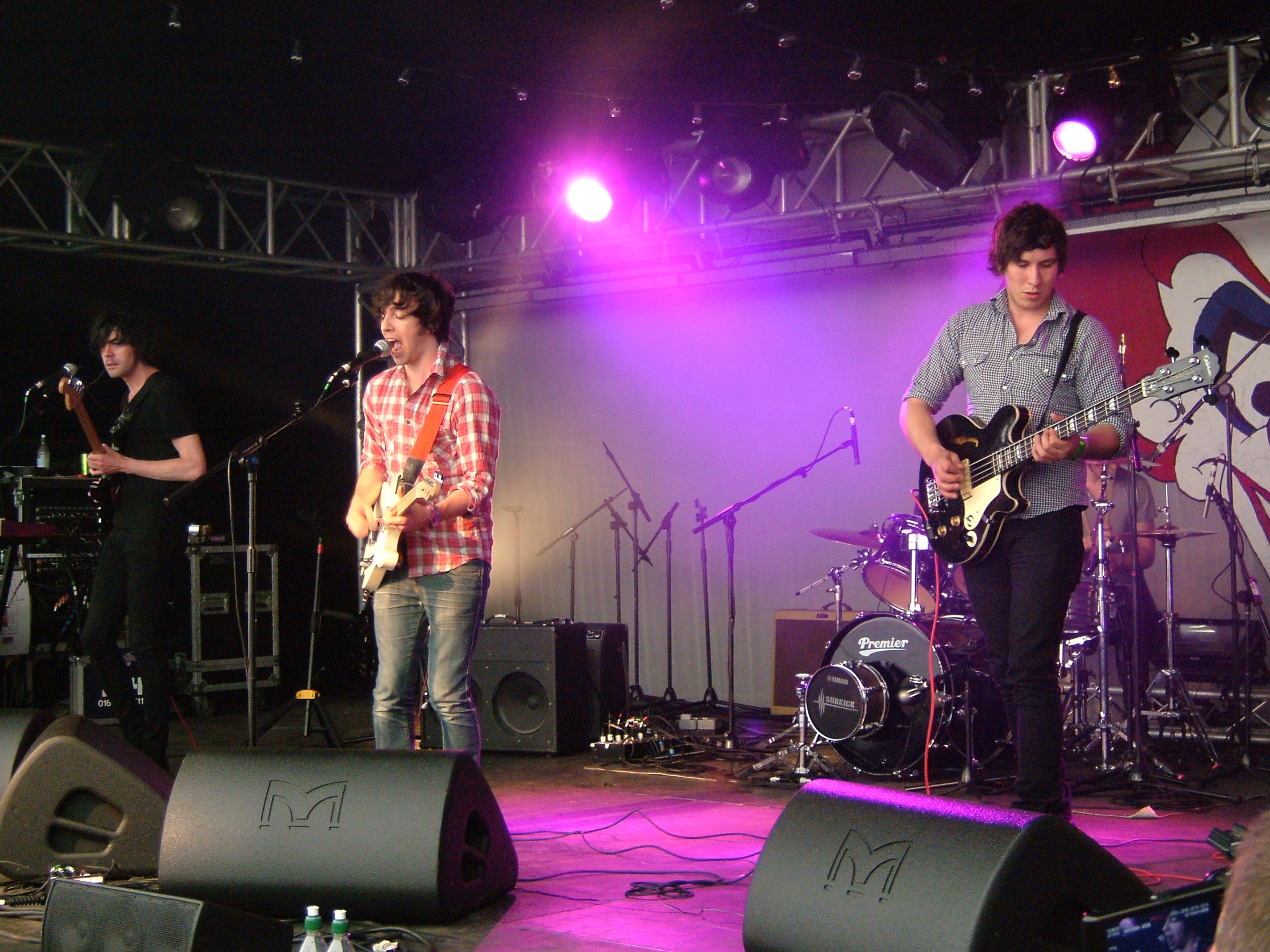 The Voom Blooms performing on the Rising Stage at the Summer Sundae Weekender, Leicester, 2008